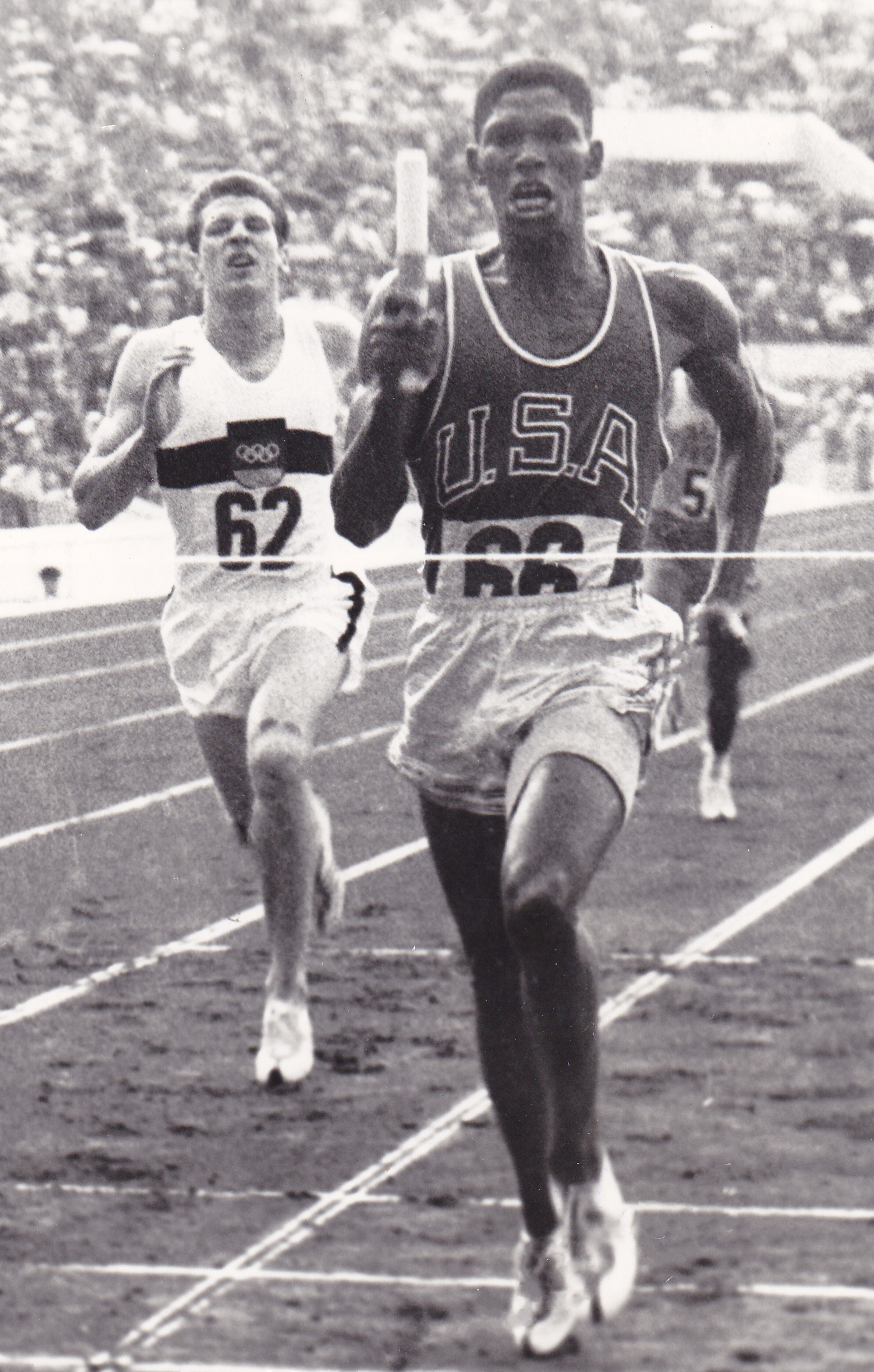 Otis Davis, 1960 Olympics, 4x400 m relay